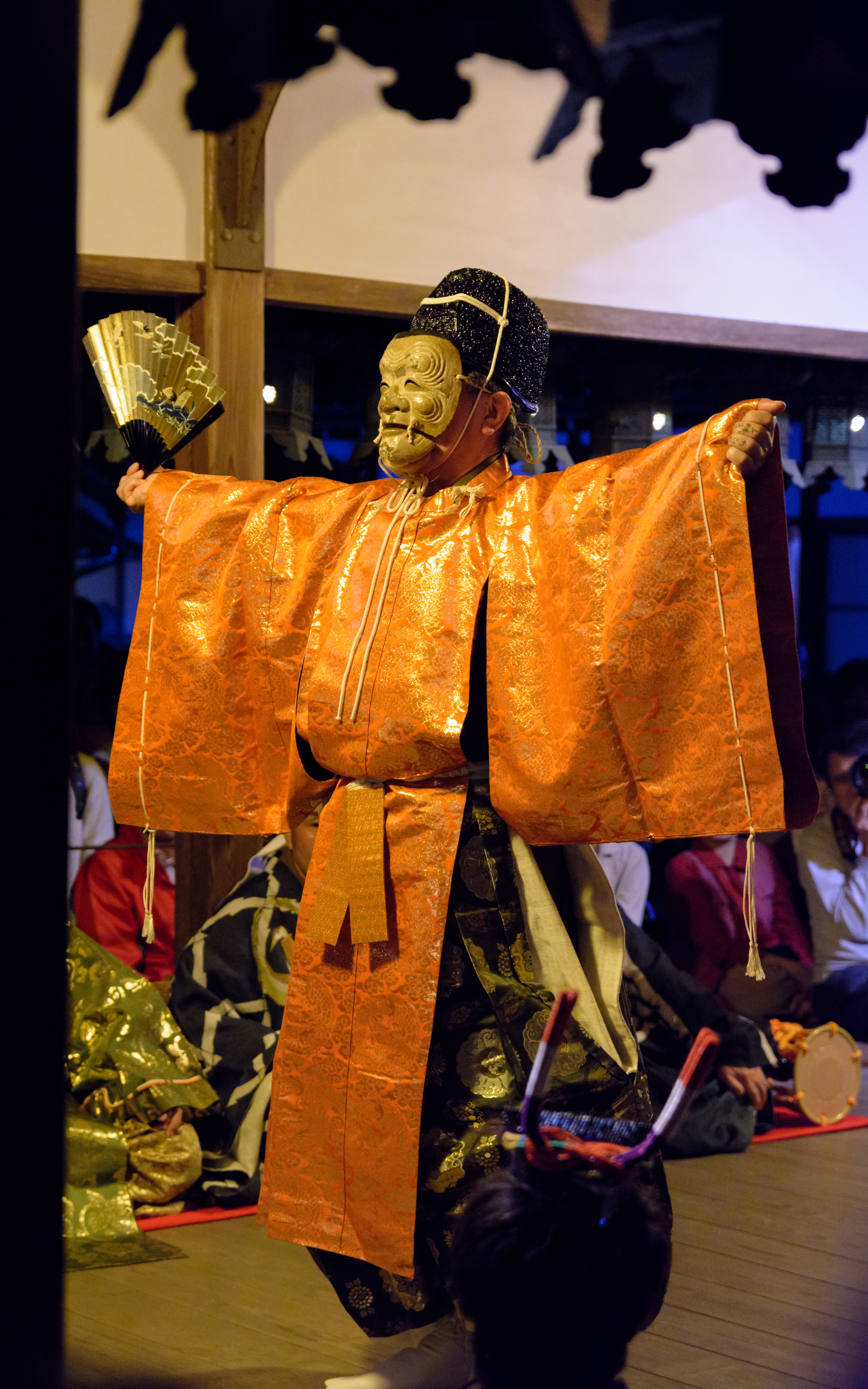 Okina-mai of Naratsuhiko-jinja (奈良豆比古神社の翁舞 Naratsuhiko-jinja no Okina-mai ) is said to be the original form of Nō performance. It is held on the evening of the 8 October. The performance has been recognized as a Important Intangible Cultural Properties of Japan since 27 December 2000. Naratsuhiko-jinja is a Shinto shrine in the city of Nara, in Nara Prefecture, Japan.